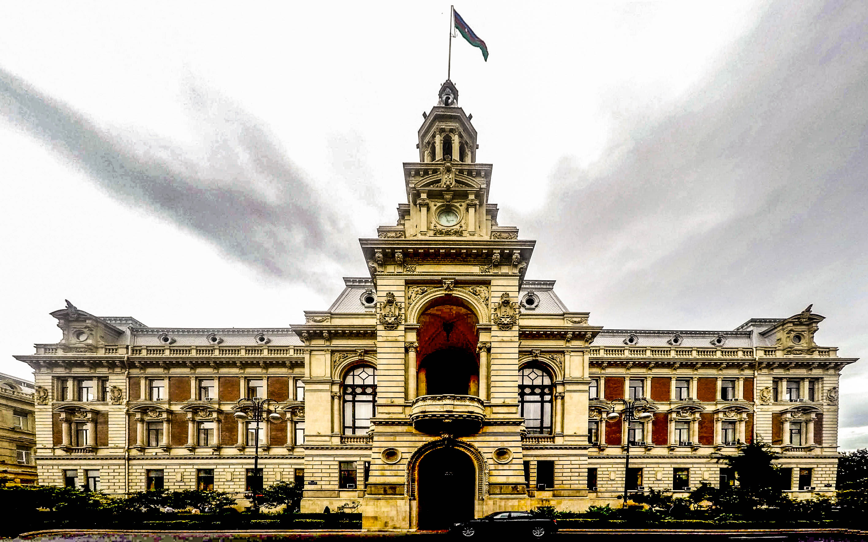 Mayoralty of Baku main façade, 2015